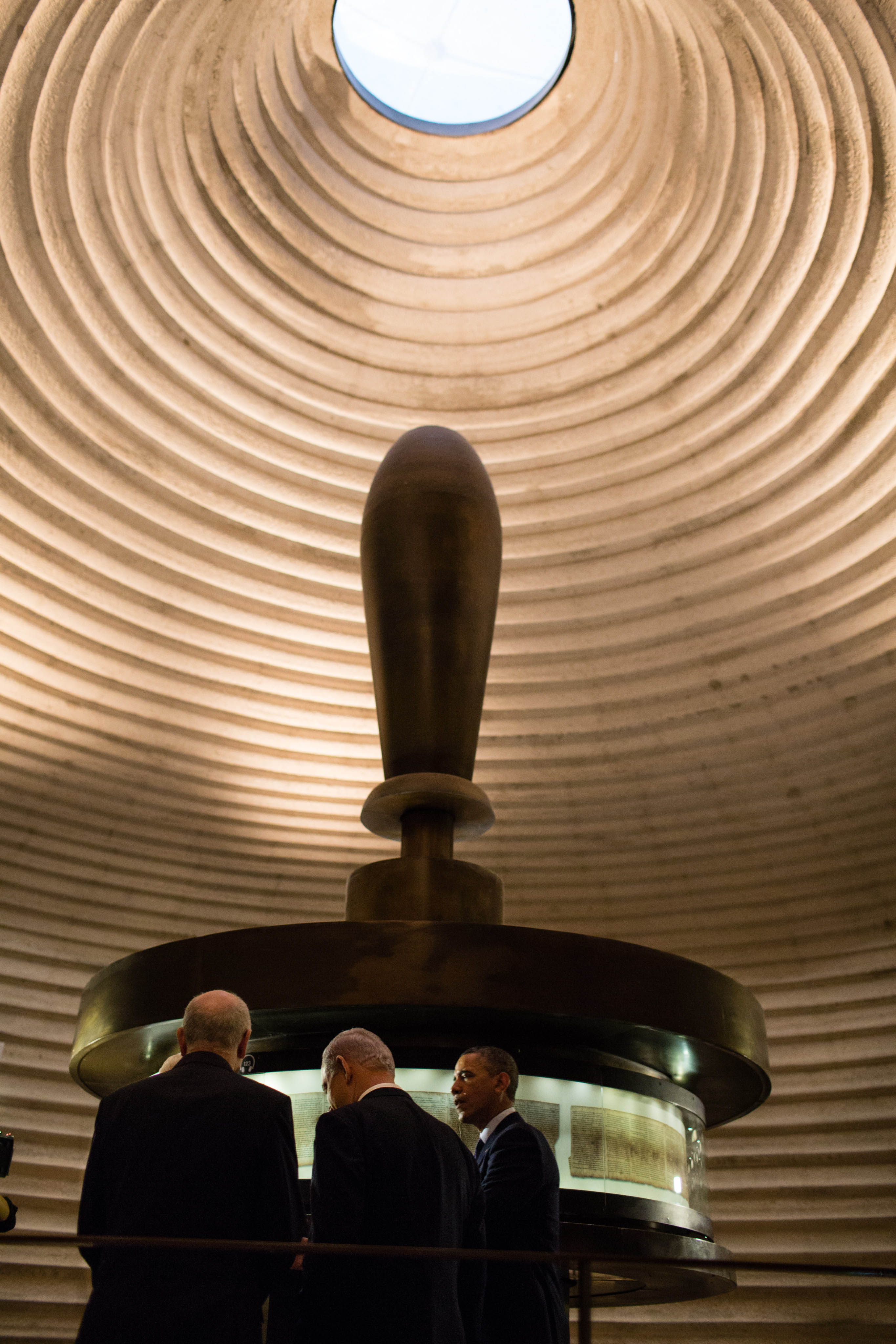 President Barack Obama views the Dead Sea Scrolls at The Israel Museum in Jerusalem, March 21, 2013. (Official White House Photo by Pete Souza)